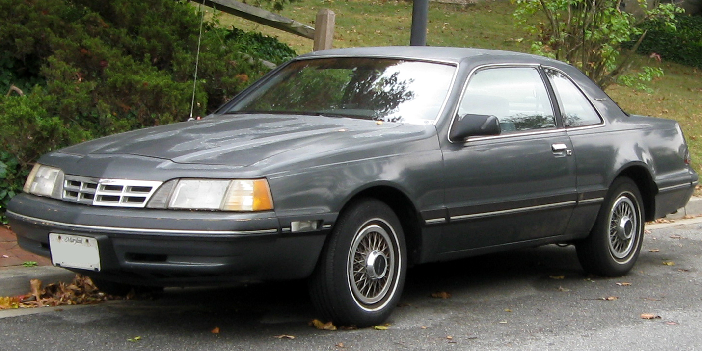 1987-1988 Ford Thunderbird photographed in College Park, Maryland, USA.